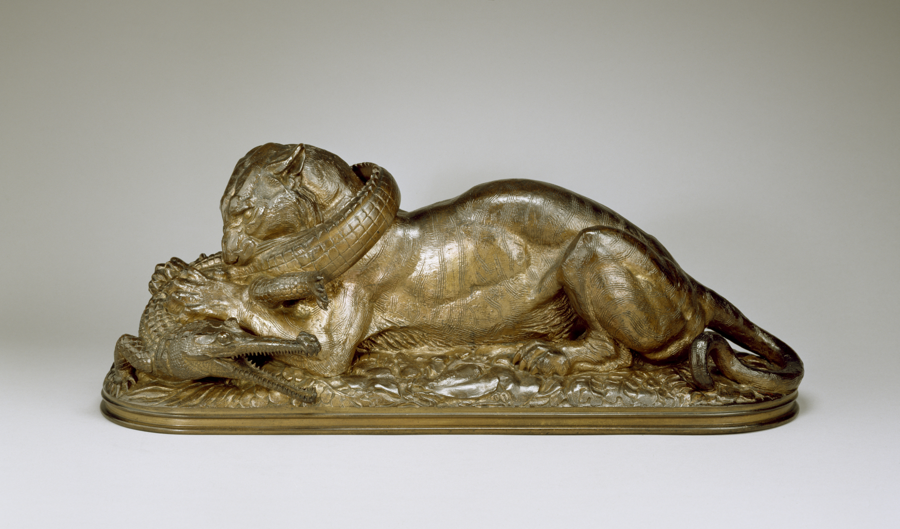 When a plaster model for this sculpture appeared in the Paris Salon of 1831, critics were astonished by the choice of an animal theme over a more conventional human subject. One critic praised the manner in which Barye expressed both the suffering of the gavial (an Indian crocodile with a narrow snout) and the grim determination of the tiger. He also admired the sculptor's ability to portray a subject that he could never actually have witnessed. This particular piece bears the stamp, of A Victor Paillard (1805-1886) a Bourbon crown over the letters VP. His foundry was noted for the quality of the casting. There is a certain lack of clarity to the impression of the stamp, which led experts to consider the possibility that the bronze was a surmoulage (a cast after another cast), but this opinion has now been rejected.